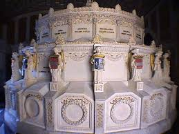 Pantheon of the Infantes - Chapel 6